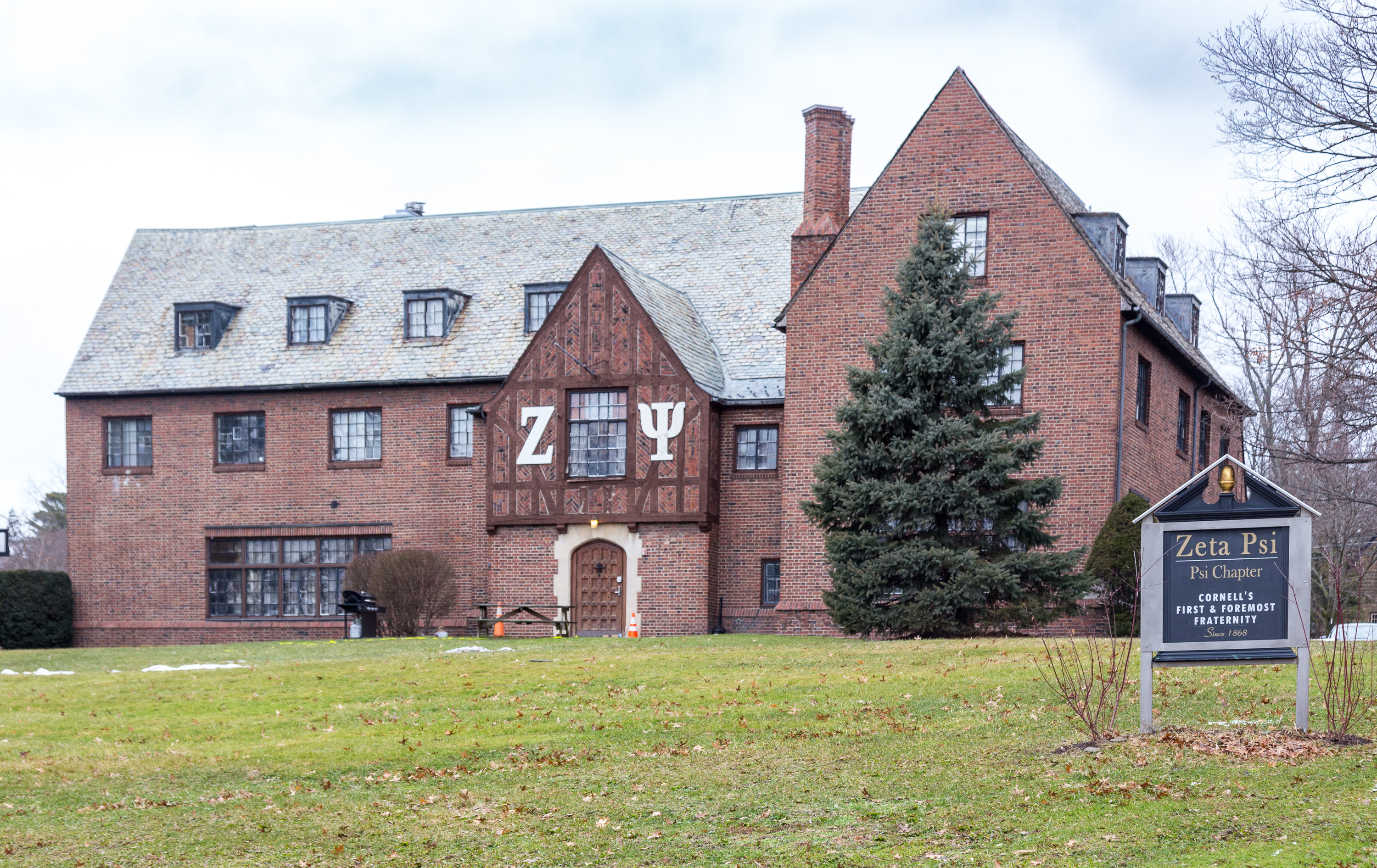 Zeta Psi fraternity house, Cornell University, Ithaca New York